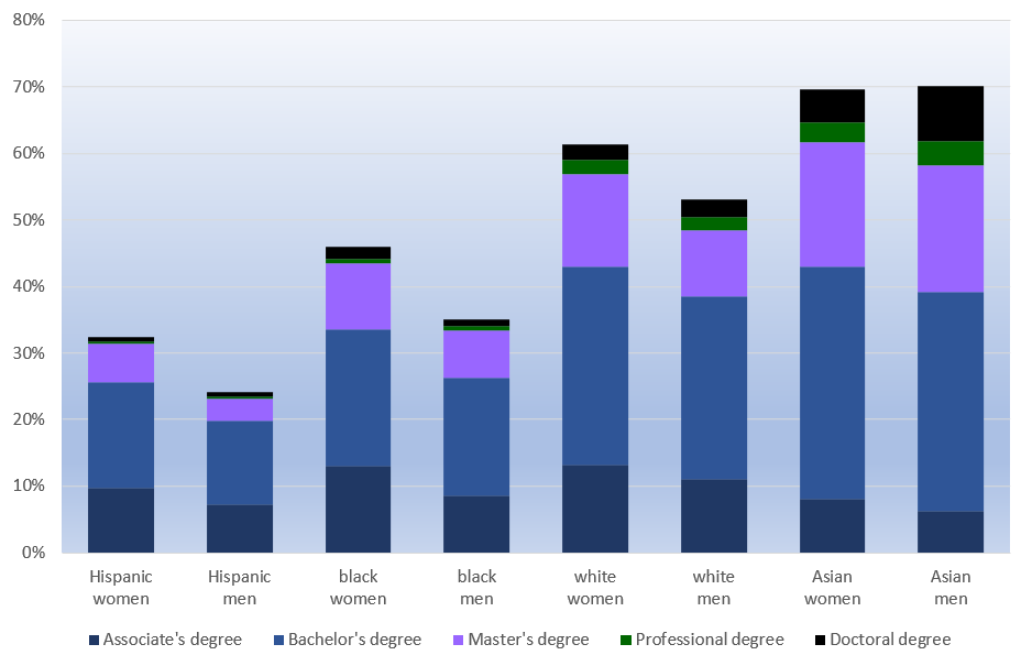 data